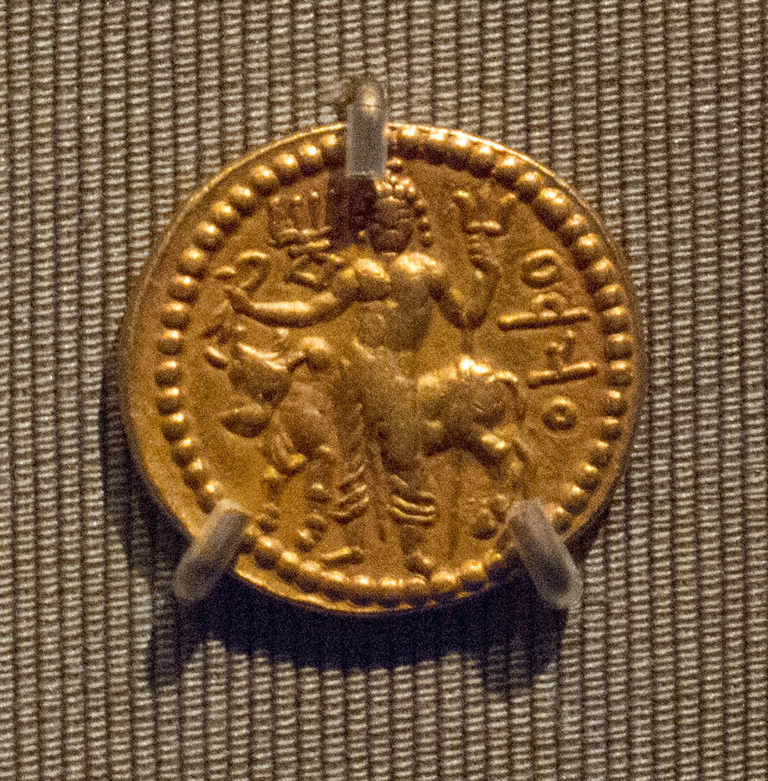 Coin of the king Vasudeva I with the indian god Shiva and a humped bull , Kushan kingdom, approx. 163-200. Gold, dam. 1.9 cm. Asian Art Museum, San Francisco.